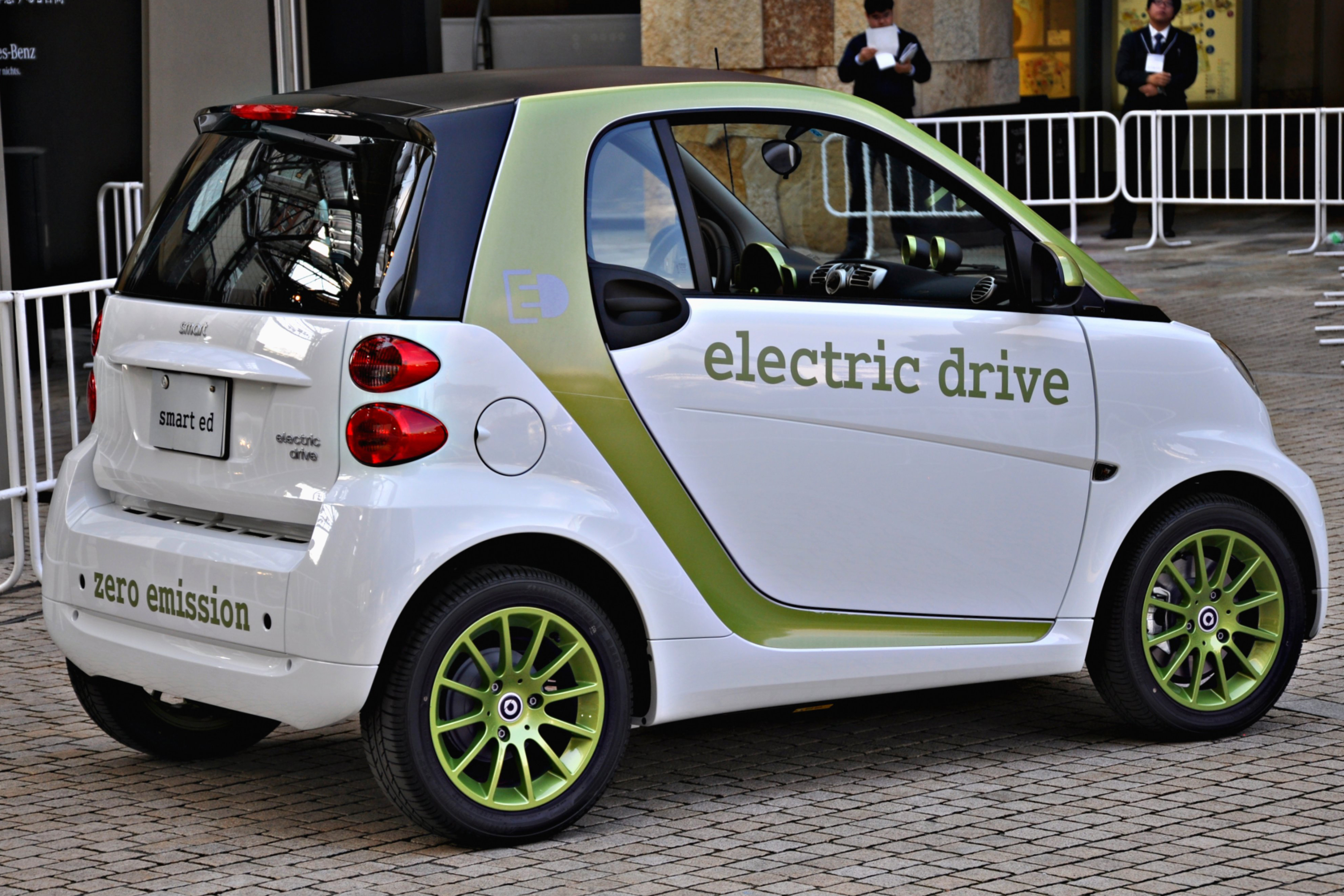 Smart For Two Electric @ Roppongi Hills Arena, Tokyo, Japan